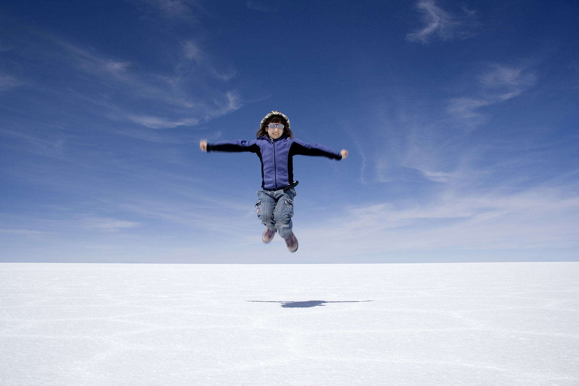 Jumping Giulia in the White Wide World of the Salar de Uyuni, Bolivia.